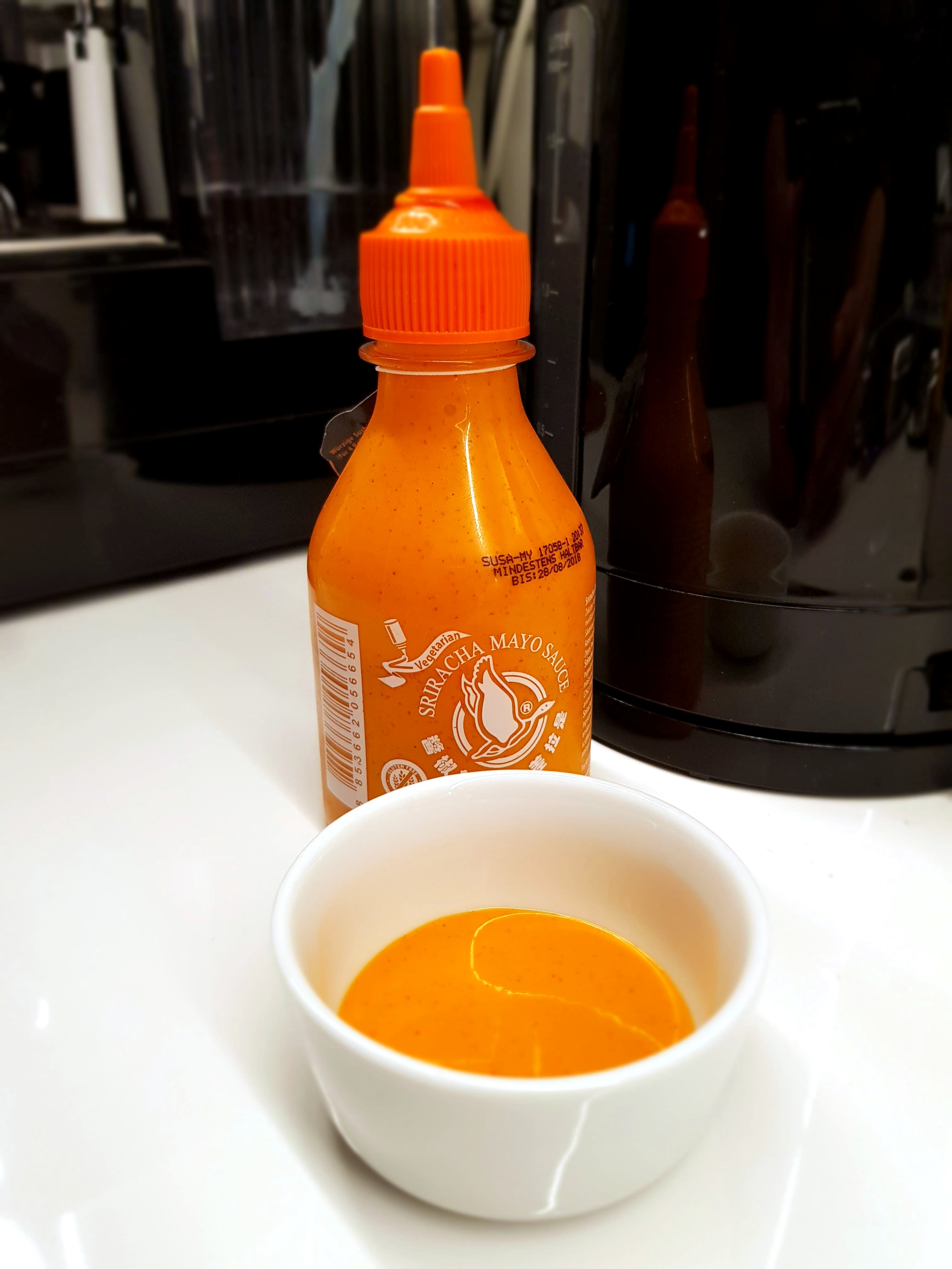 Flying Goose Brand Sriracha Mayo Sauce is made in Thailand